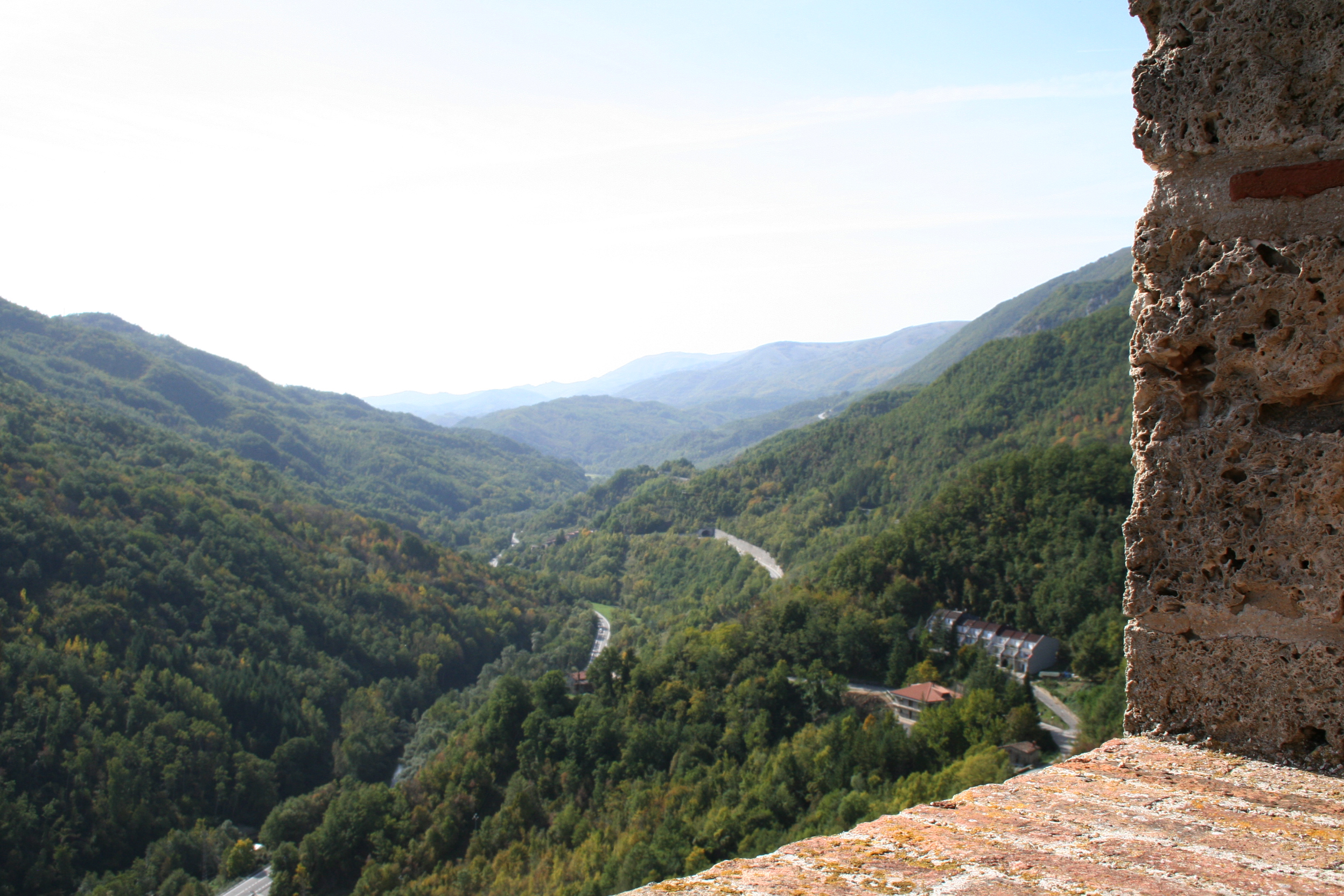 The Tronto Valley as seen from the castle of Rocca di Arquata del Tronto in Italy. View of the upper part of the valley of Tronto River in direction of Pescara del Tronto, Accumoli and Amatrice (road SS 4 to Rome). In the left (not visible in that photo) is the village Spelonga (← Italian Wikipedia article), up in the forest of the hills above the river.